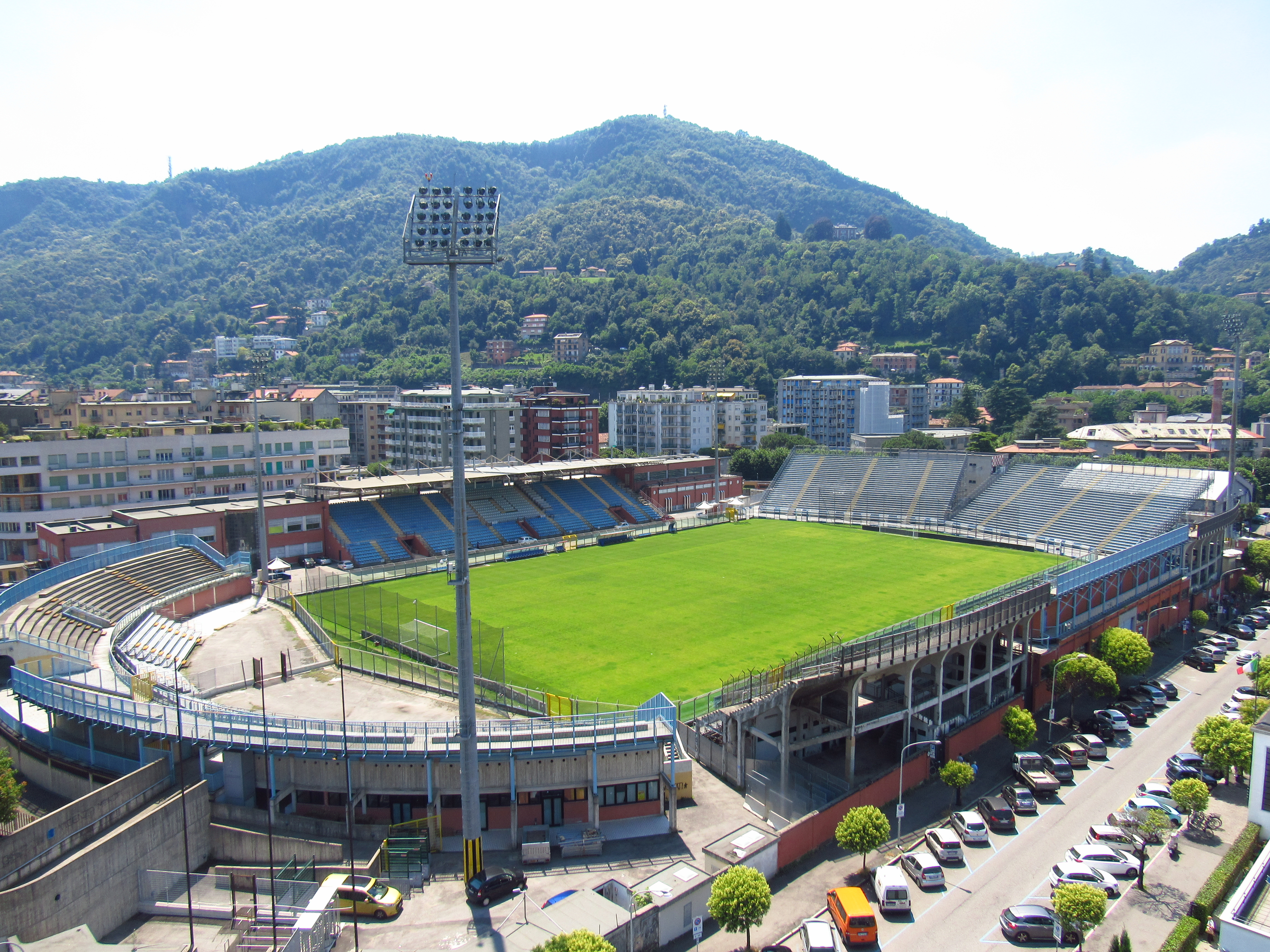 Giuseppe Sinigaglia Stadium in Como, Italy.